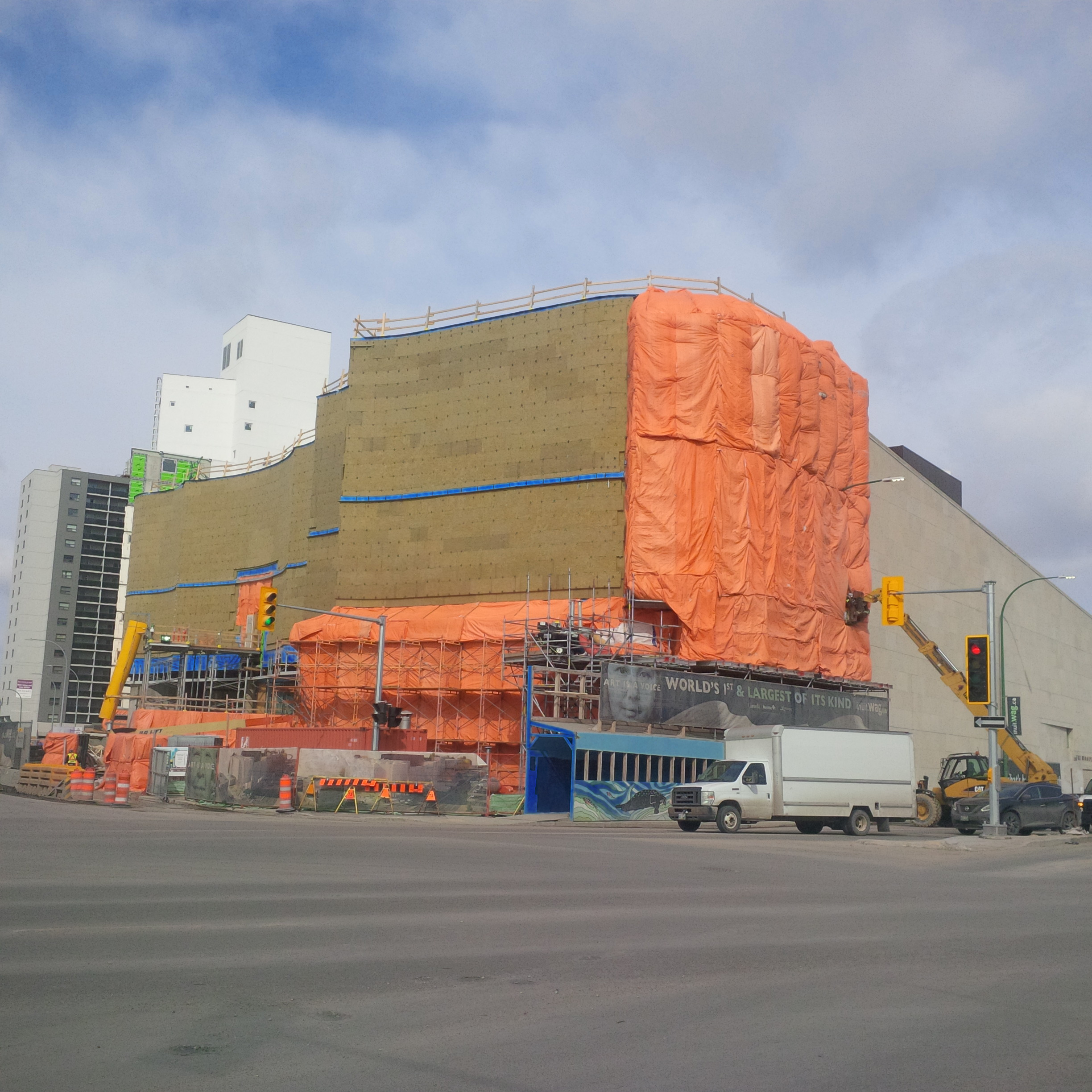 Inuit Art Centre, Winnipeg Canada under construction as at April 2020.